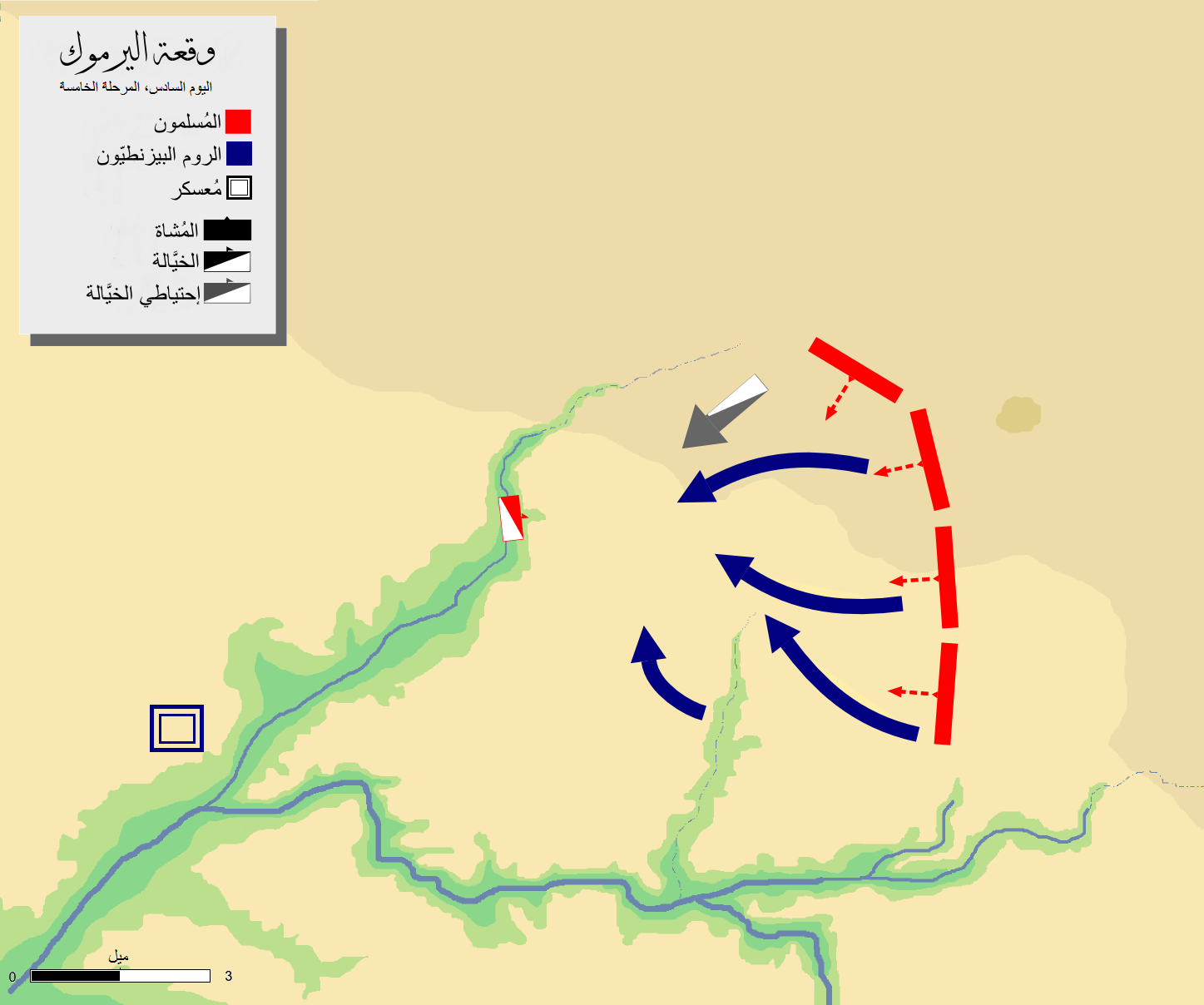 Battle_of_Yarmouk-day-6_phase-5